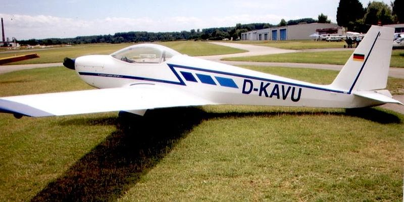 Schleicher AS-K16 motor glider at Speyer-Edry airfield, Germany